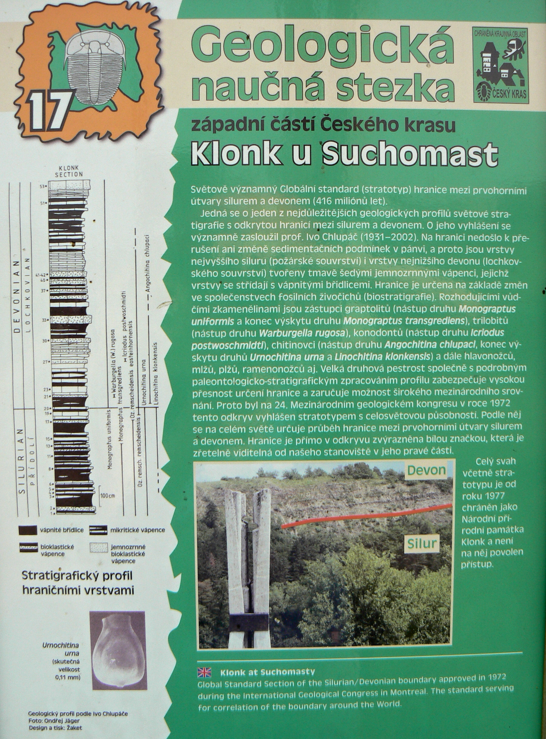 Informations (in Czech) about national natural monument Klonk near Suchomasty, Beroun District